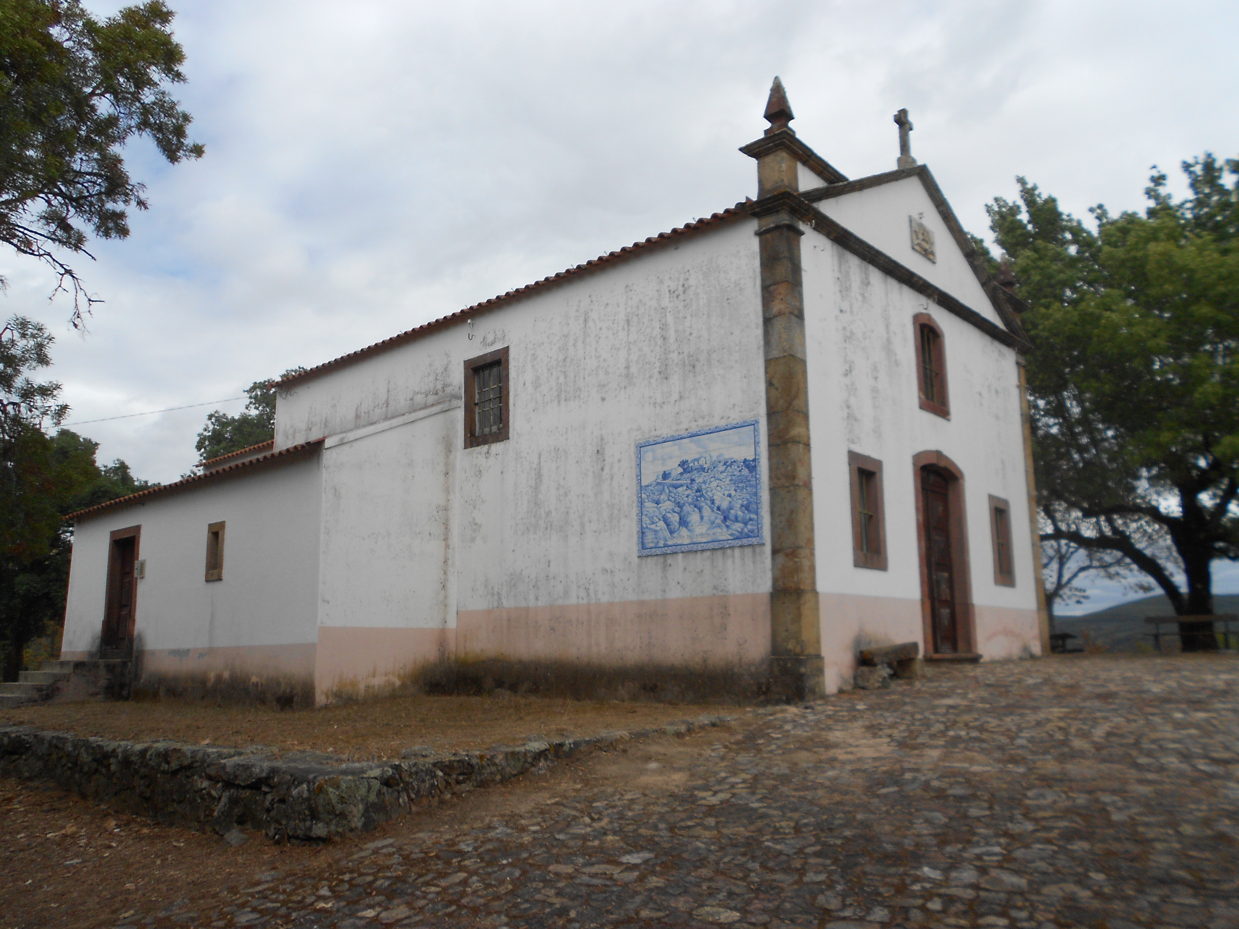 Chapel of Nossa Senhora da Candosa in Góis, Portugal